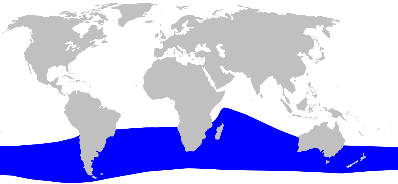 Gray's Beaked Whale range map